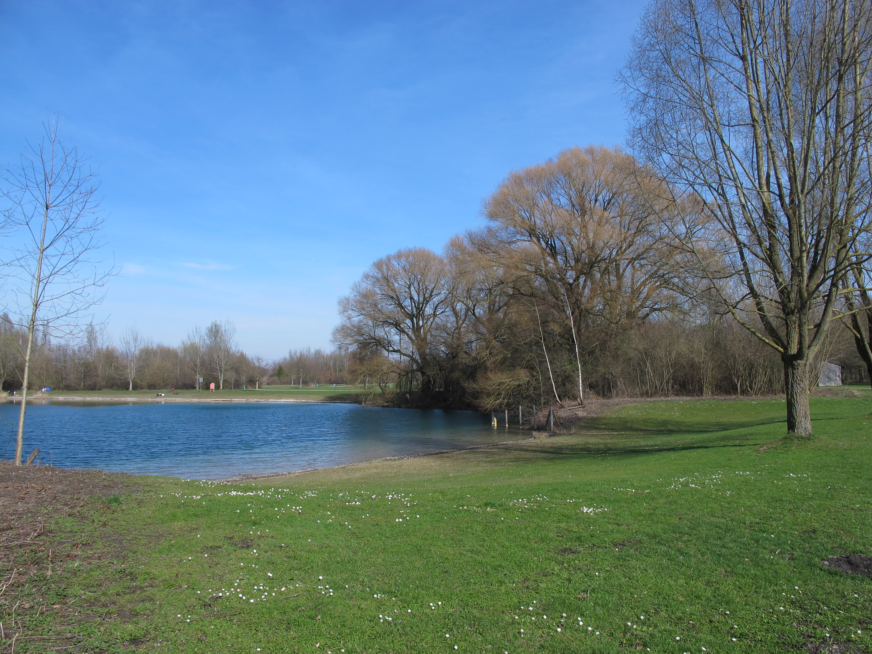 Birkensee, which is part of the Langwieder Lakes in march 2017